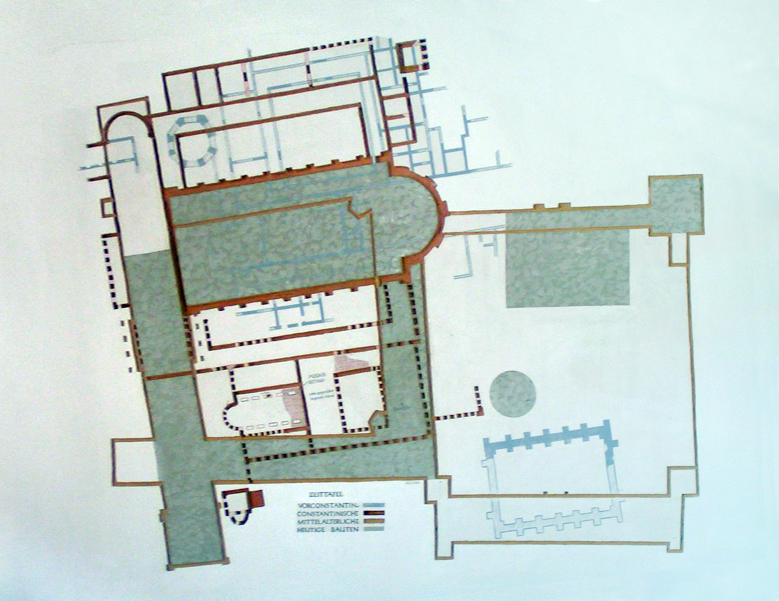 Kurfürstliches Palais, Trier, Germany